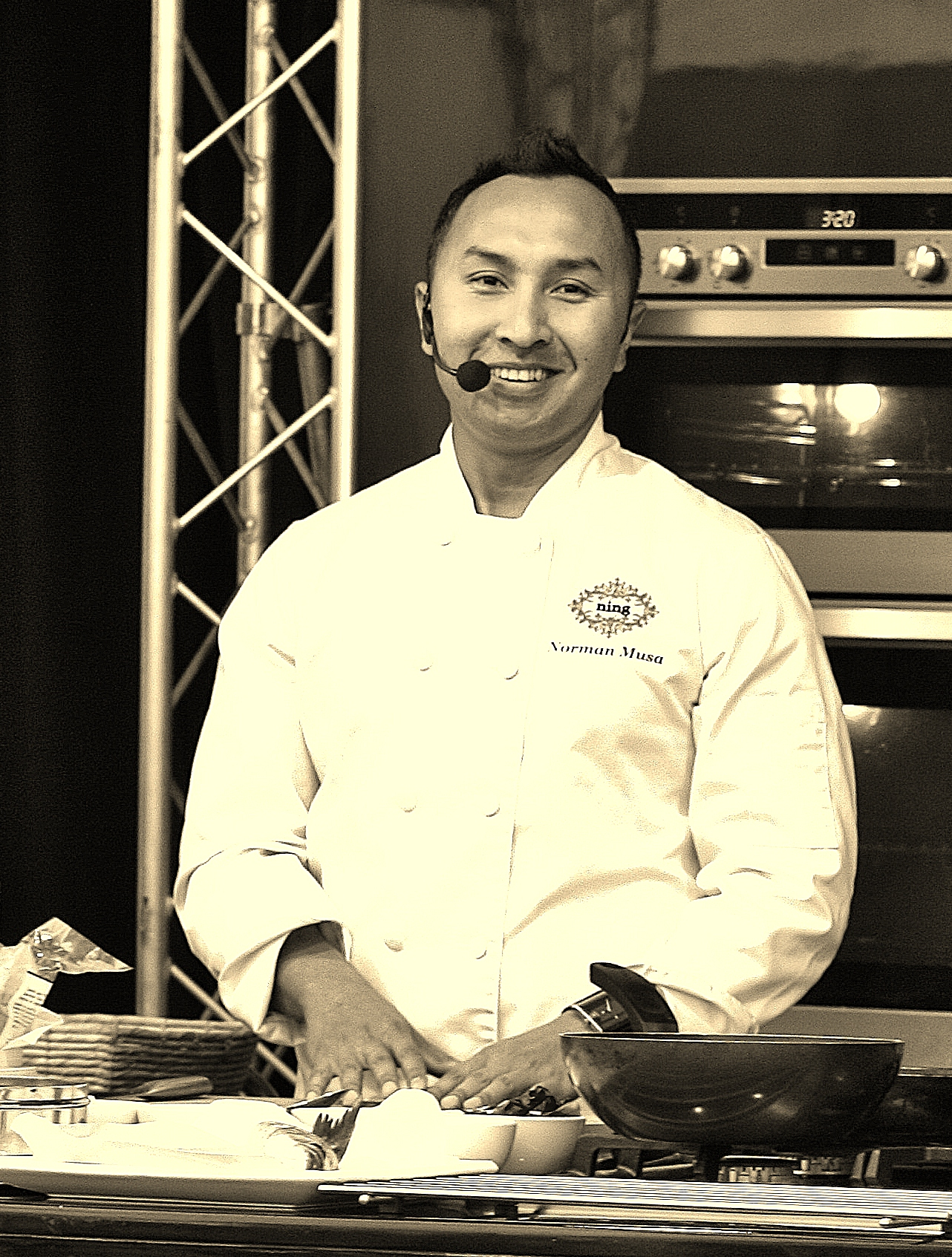 Celebrity Malaysian chef Norman Musa live on stage at Foodies Festival, Tatton Park, Cheshire, UK in May 2011.